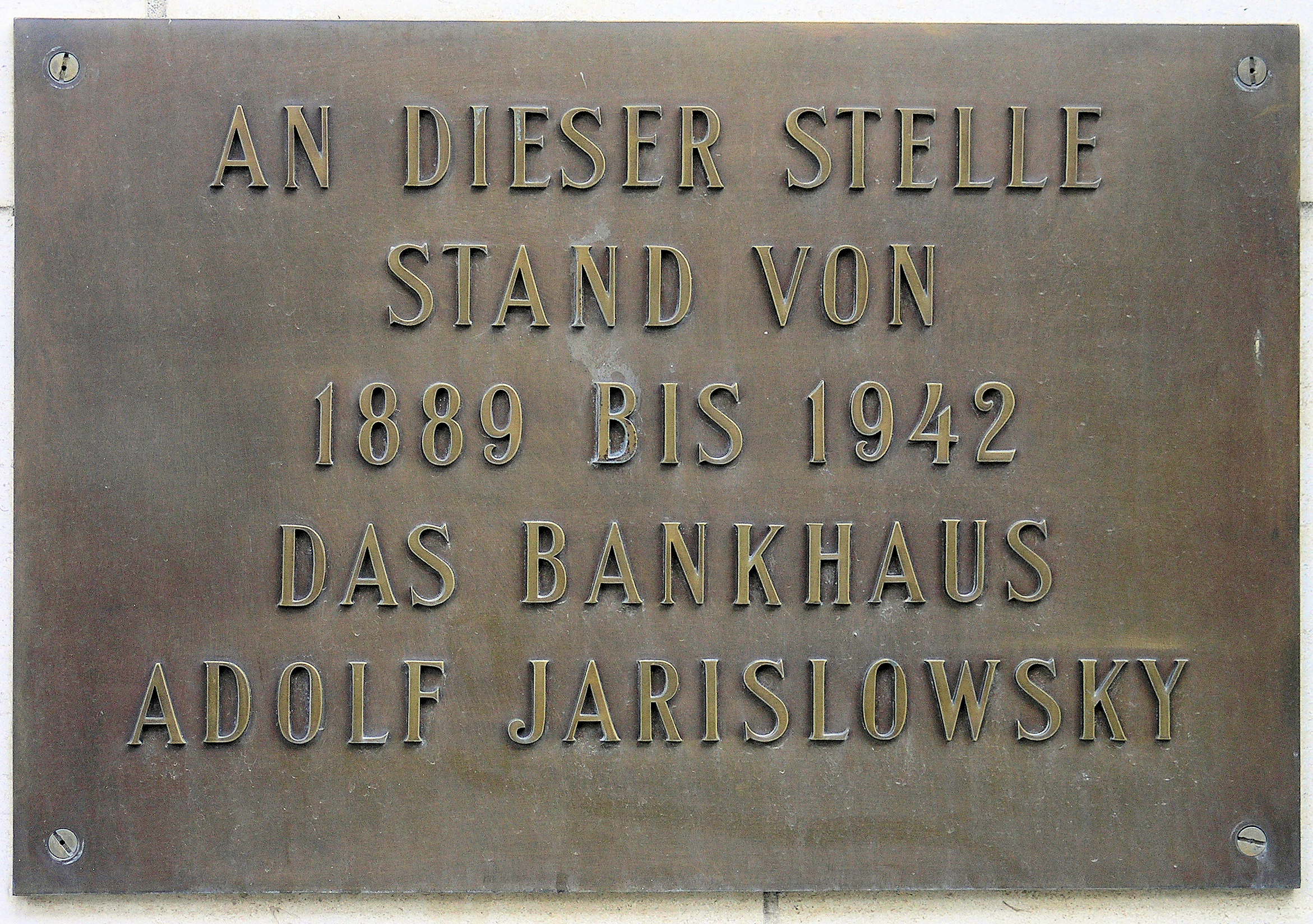 Memorial plaque, Adolf Jarislowsky, Jägerstraße 69, Berlin-Mitte, Germany Koordinate:52°30′49.5″N 13°23′13.4″E / 52.51375°N 13.387056°E